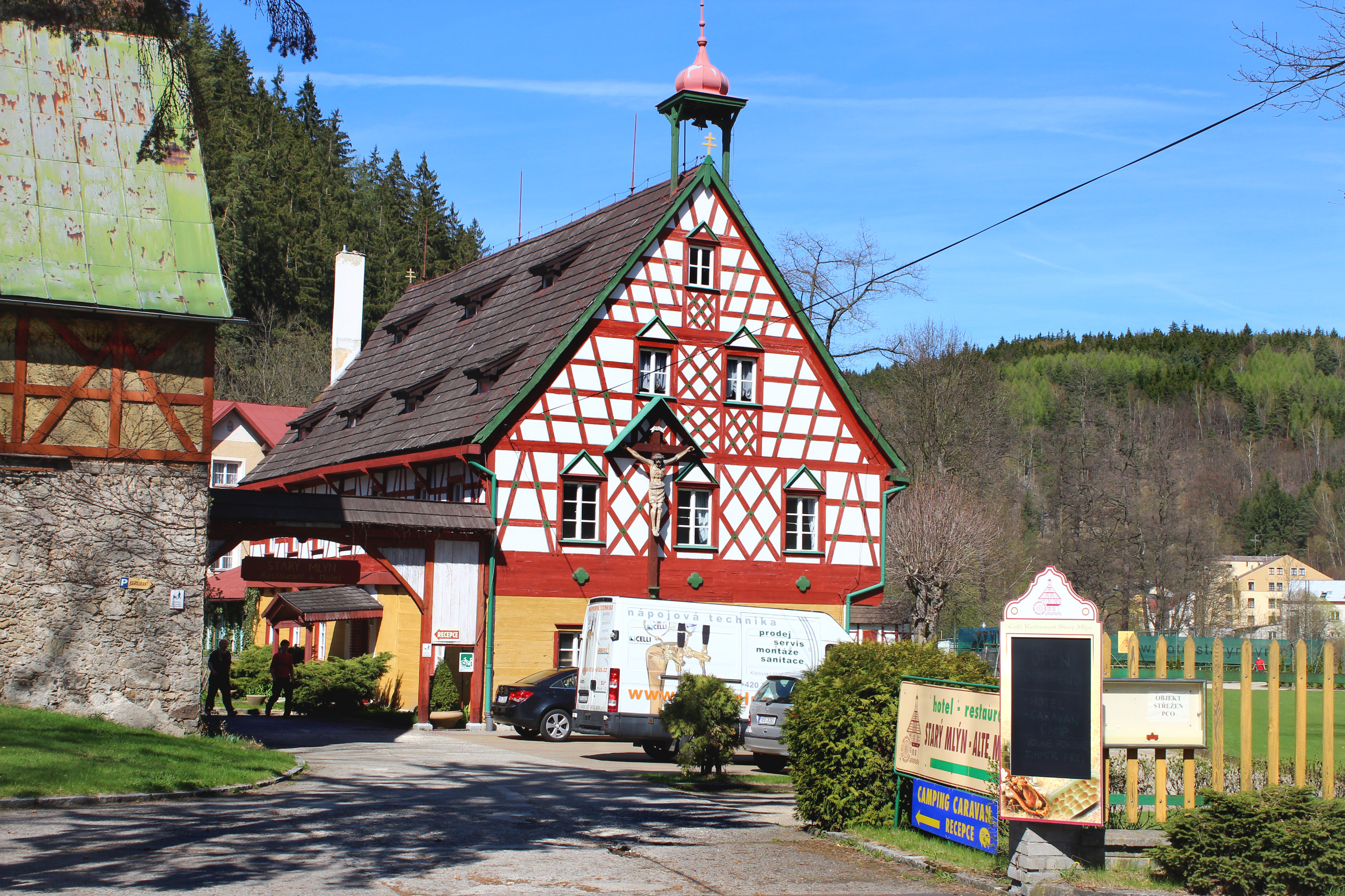 Starý mlýn hotel in Březová village, Czech Republic